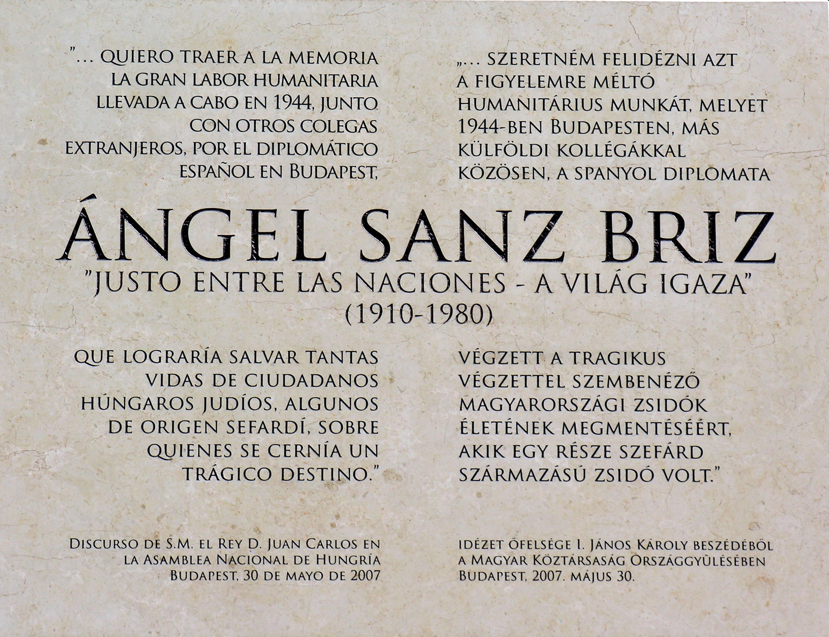 Commemorative plaque of the Spanish diplomat Mr. Ángel Sanz Briz (1910-1980), on the wall of the Embassy of Spain in Budapest. (Budapest, District VI, Eötvös Street Nr 11/b). Sanz Briz worked in Budapest in 1944 to rescue Jews from the Holocaust. The plaque was unveiled October 27, 2008.